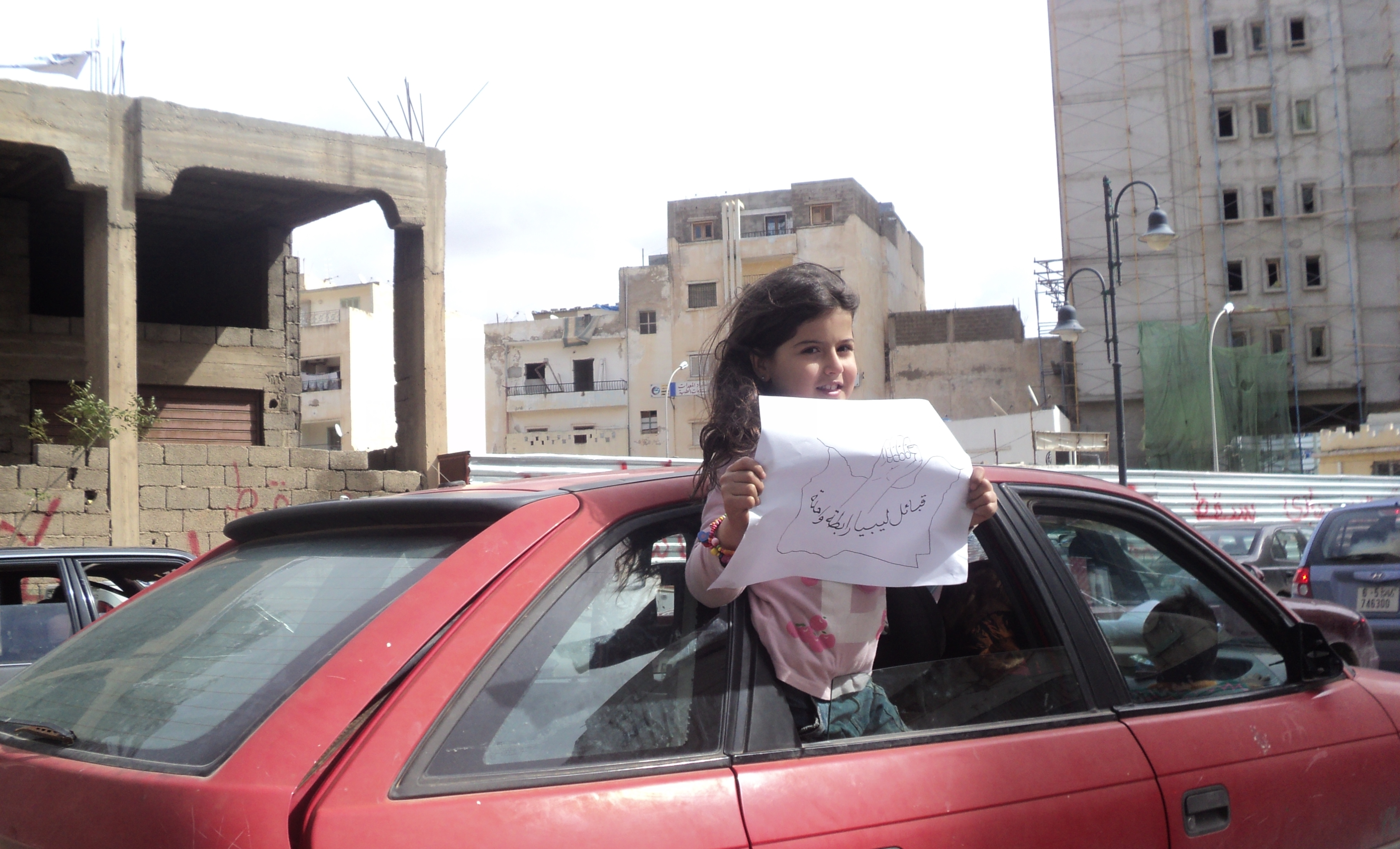 A girl in Benghazi holding a paper, it reads:"Tribes of Libya are one group".